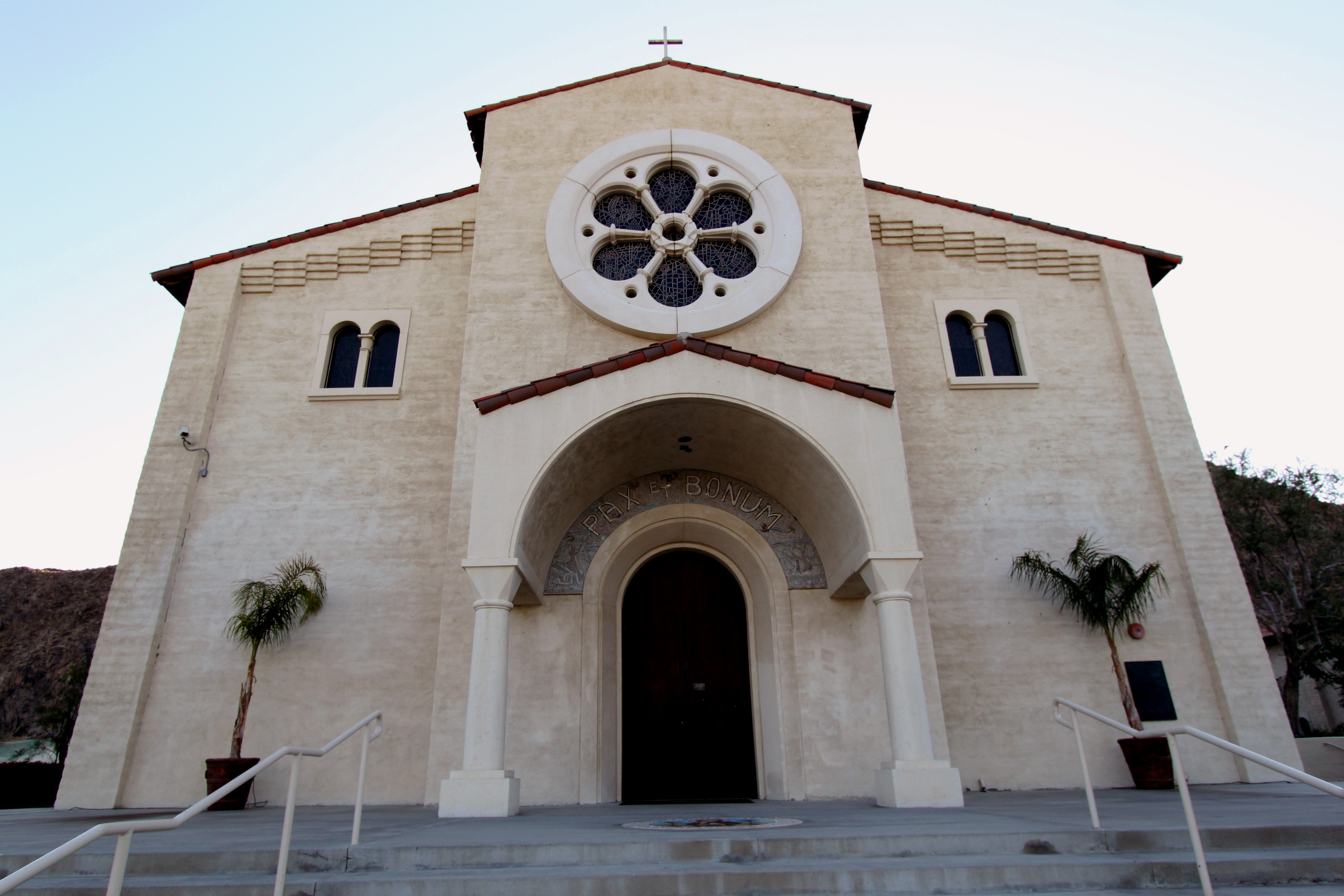 Saint Francis of Assisi Catholic Church, La Quinta — Riverside County, California, United States